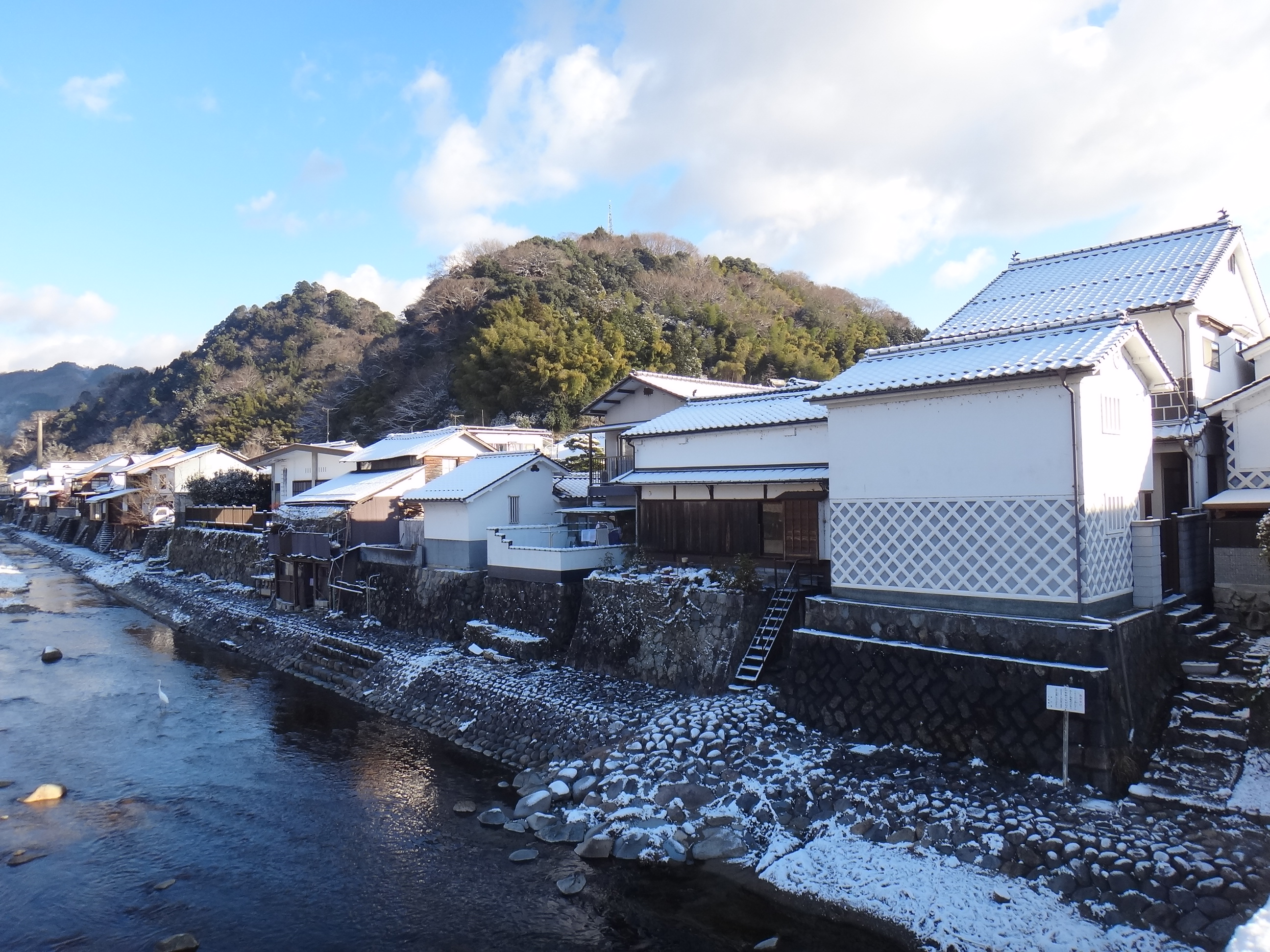 katuyama area,maniwa city,okayama pref